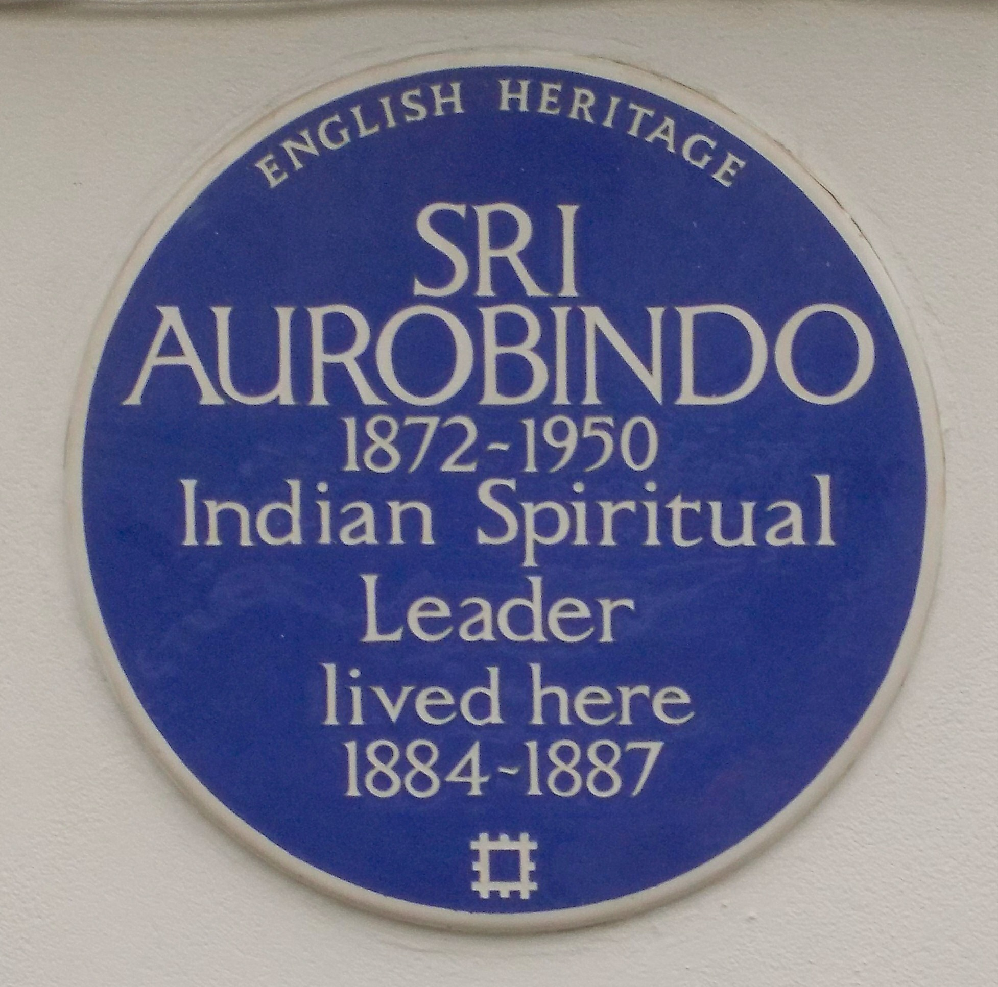 Blue Plaque Sri Aurobindo Indian Spiritual Leader lived here 1884-1887 at 49 St Stephen's Avenue, London W12